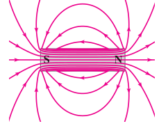 Magnetic B-field inside and outside a bar magnet. Note that some of the field lines do not show the kink they should have at the edge of the magnet.